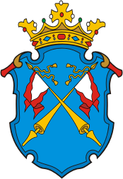 Sortavala (Karelia), coat of arms